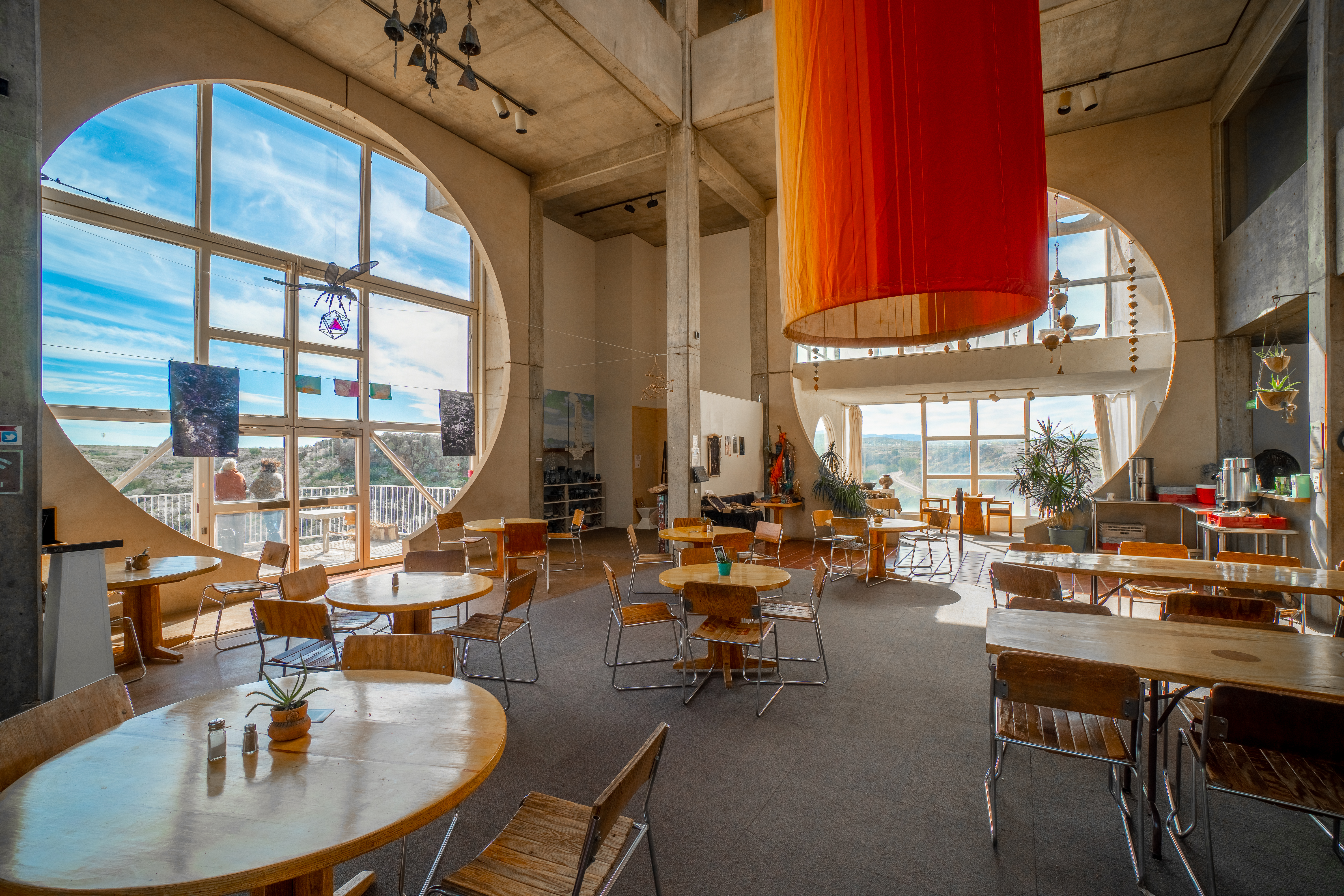 This cafe's dining area offers a spectacular view from its round windows and a balcony. It's located 2 stories below the Arcosanti visitors' Center/Gallery